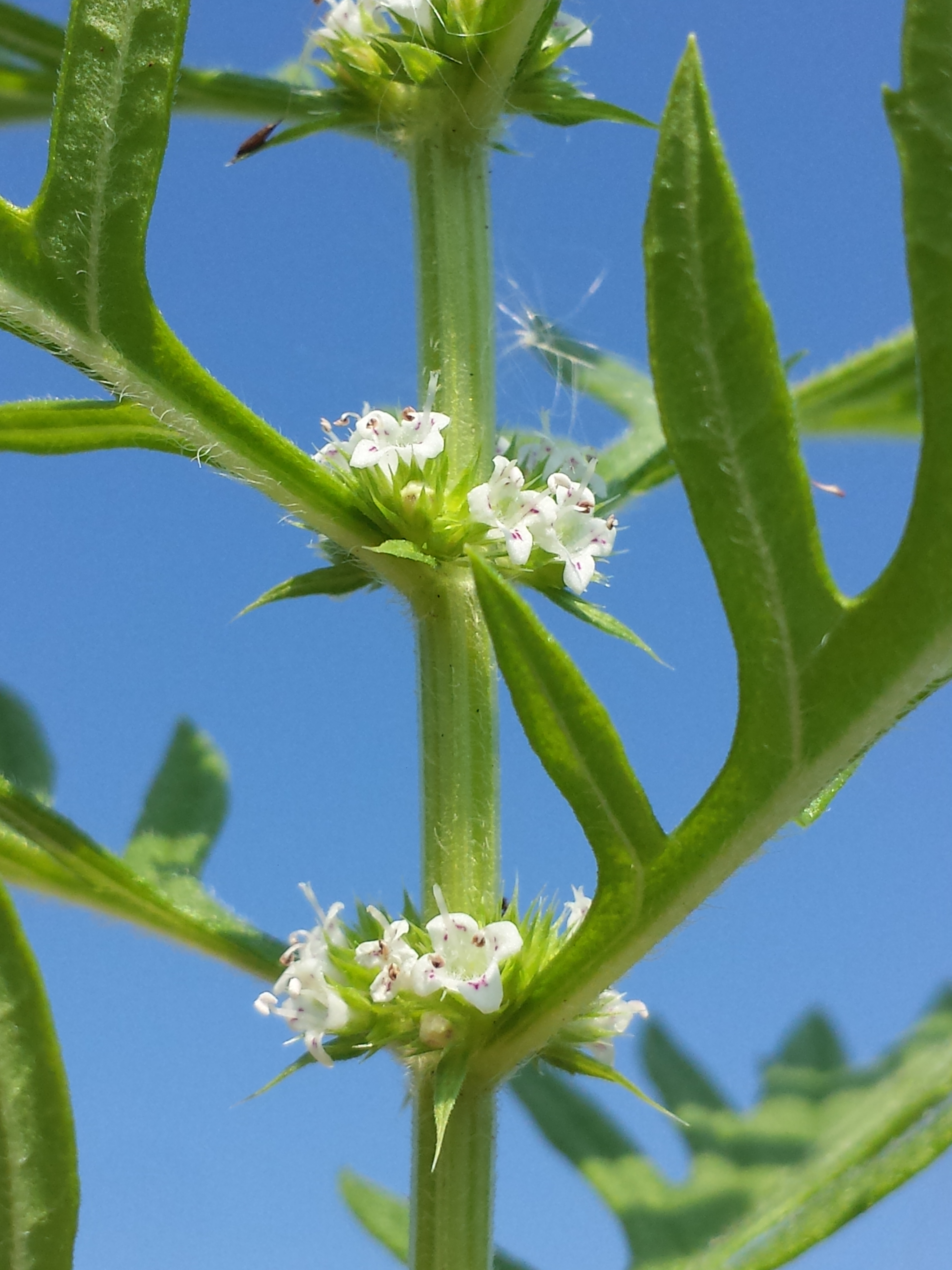 Inflorescence Taxonym: Lycopus exaltatus ss Fischer et al. EfÖLS 2008 ISBN 978-3-85474-187-9 Location: pond near Michelstetten, district Mistelbach, Lower Austria - ca. 250 m a.s.l. Habitat: shore of a pond